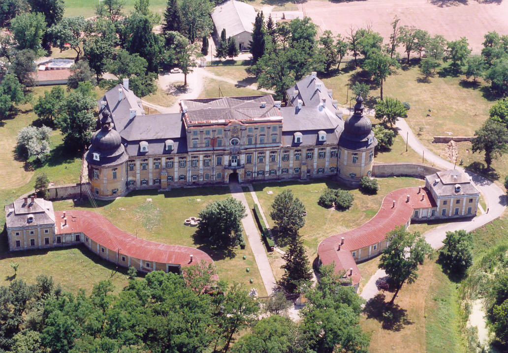 Edelény, Hungary, aerial photogfraphy